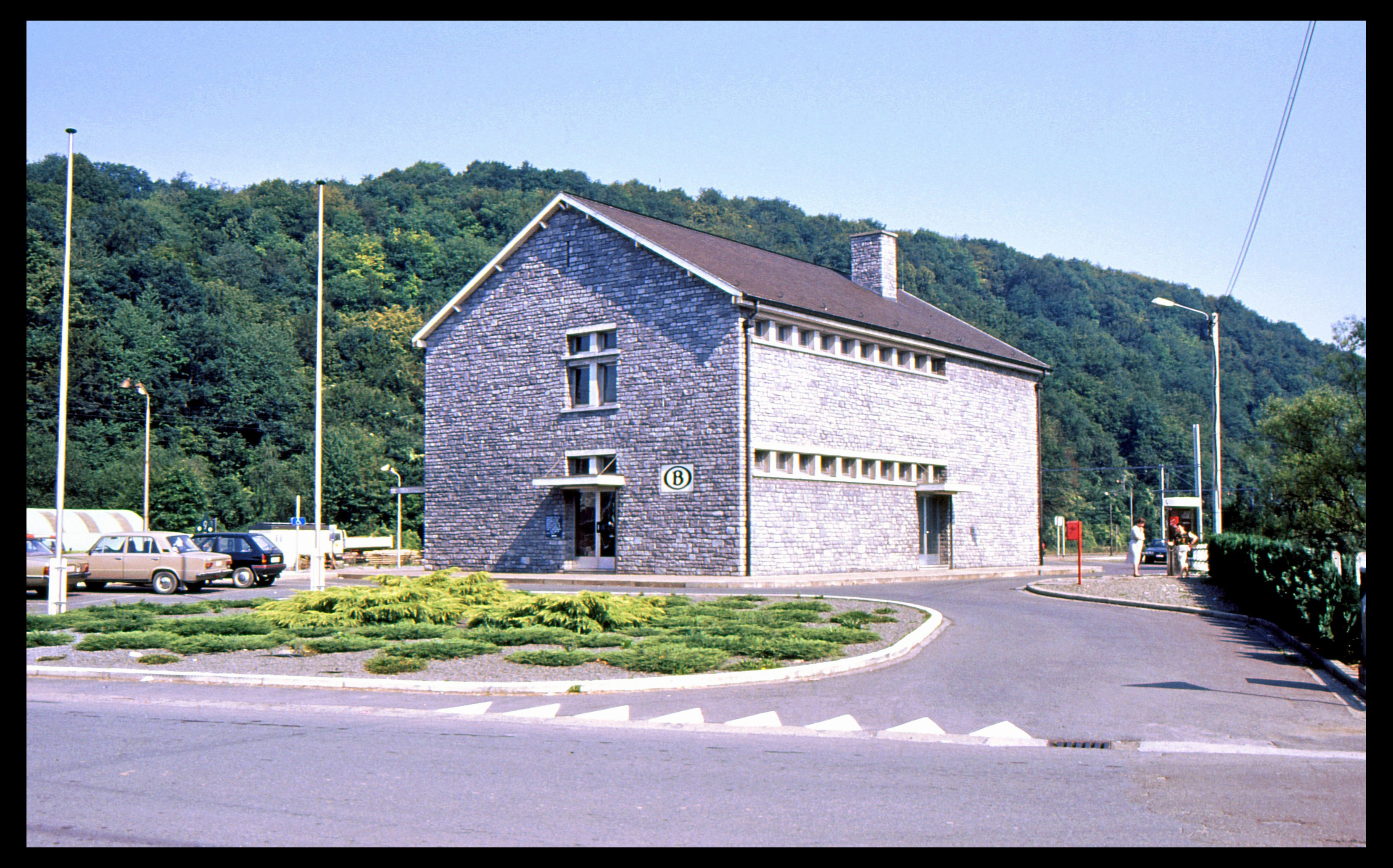 Bomal train station